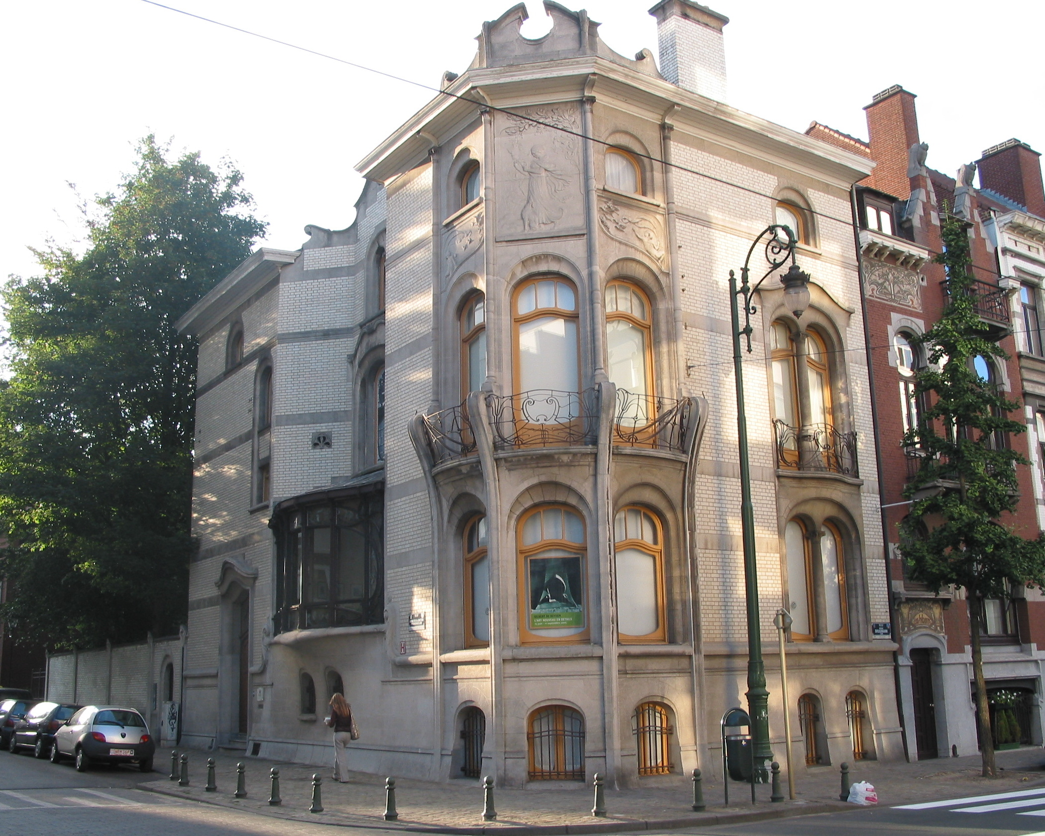 Saint-Gilles (Belgium), Hotel Hannon façade, Avenue de la Jonction, 1 (1903 - Architect: Jules Brunfaut – Sculptor : Victor Rousseau).